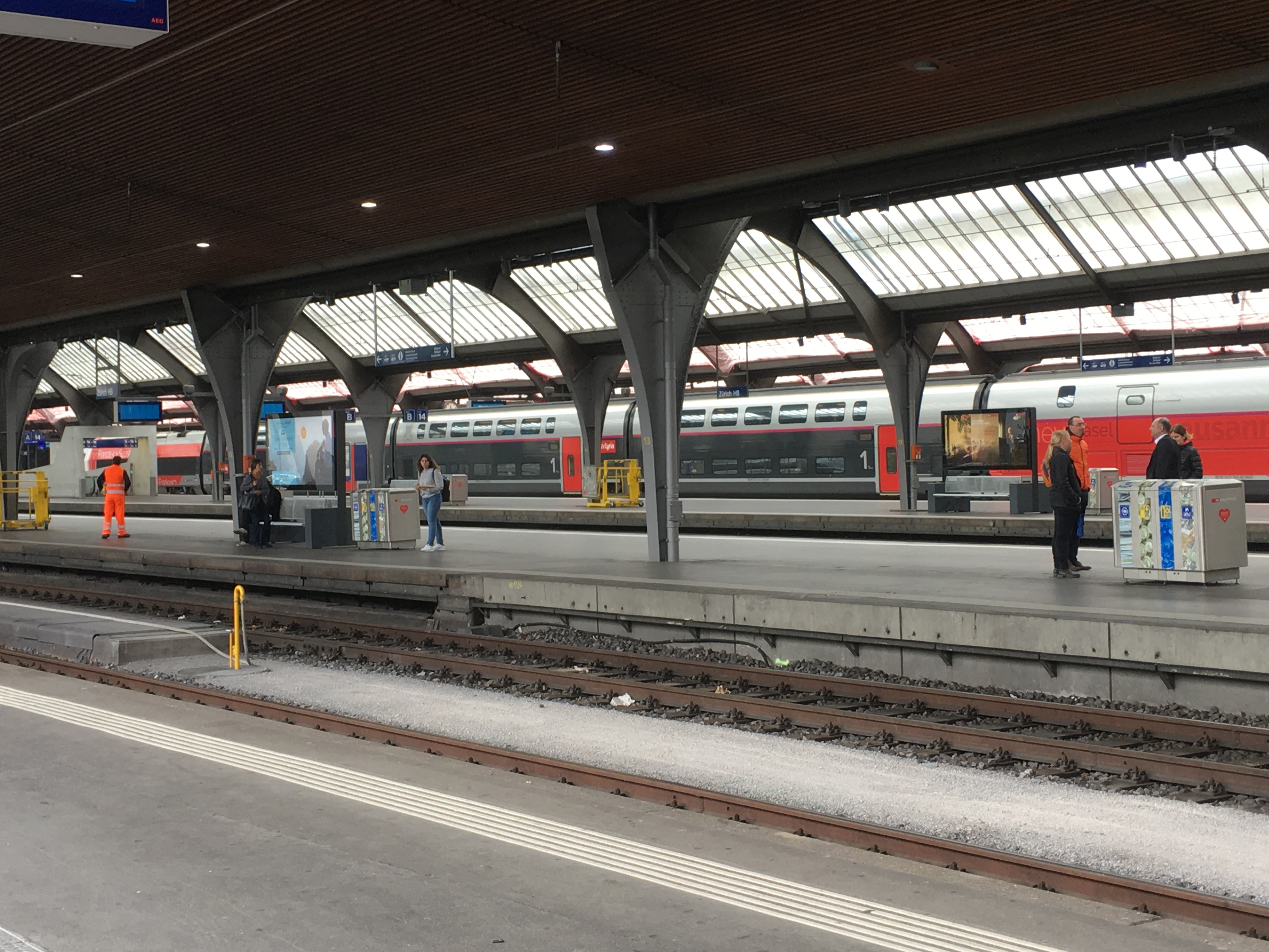 Zürich Central Station